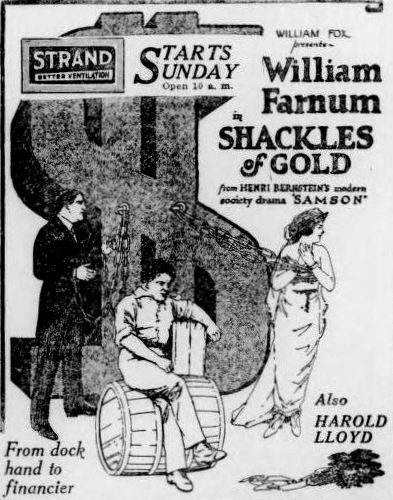 Advertisement for the American drama film Shackles of Gold (1922) with William Farnum, on page 4 of the June 3, 1922 Duluth Herald.